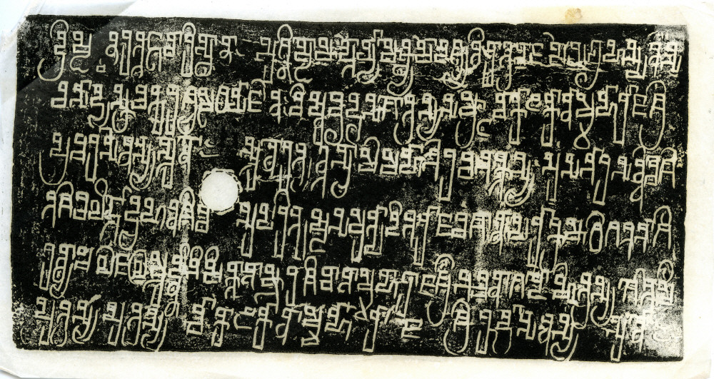 Tirodi copper plate charter of Pravarasena II, first plage